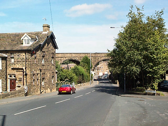 Cullingworth Viaduct At the southern end of the village, the long disused Great Northern viaduct crosses Haworth Road (the B6144 towards Bradford). The junction of the B6144 and the B6429 can be seen beyond. Cullingworth was on the Queensbury to Keighley line. The route has recently been opened to cyclists and pedestrians as part of the National Cycle Network.